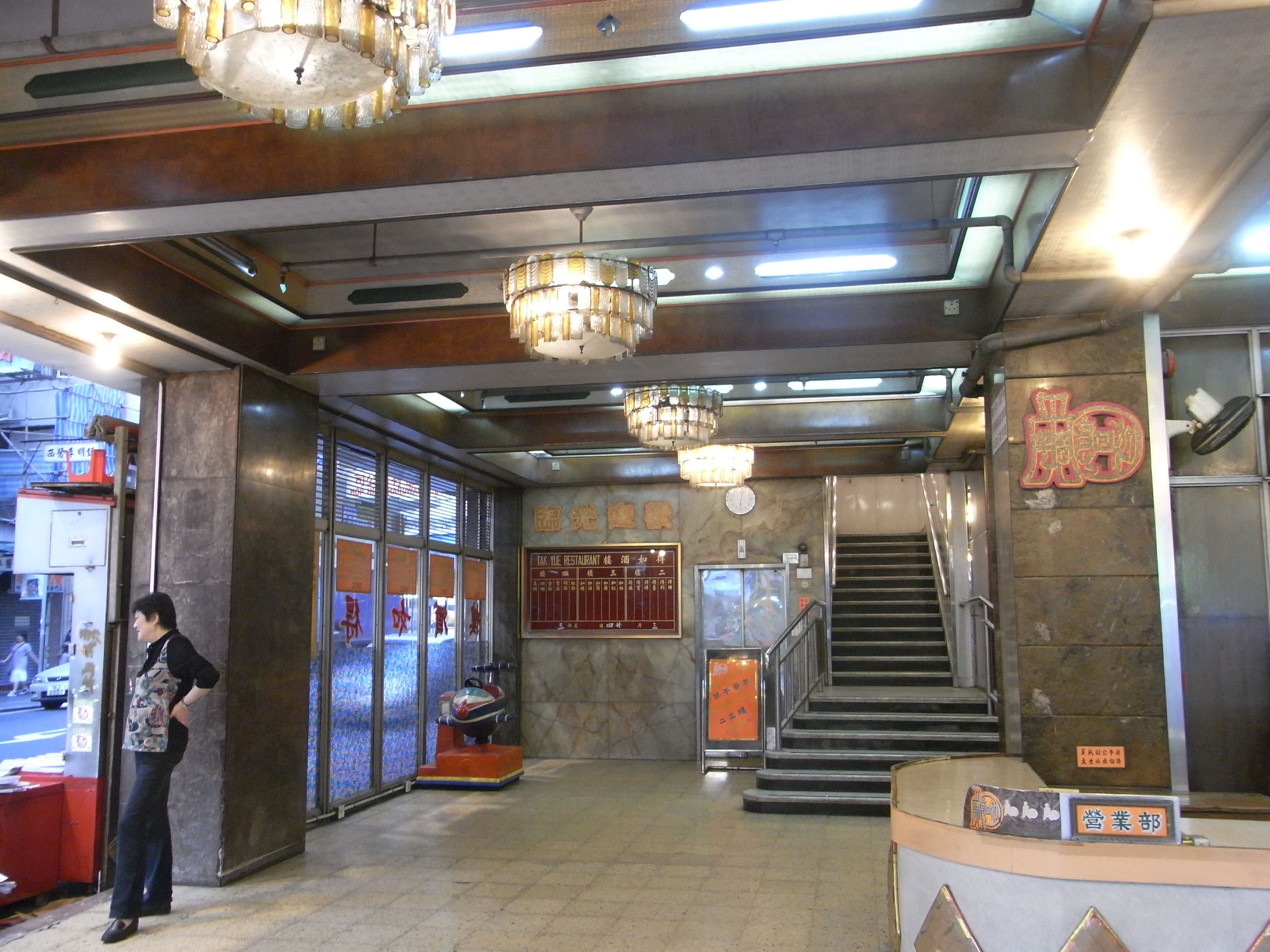 油麻地 碧街 食肆 得如茶樓